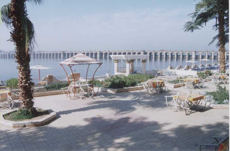 أهم عوامل الجذب السياحي في محافظة أسيوط